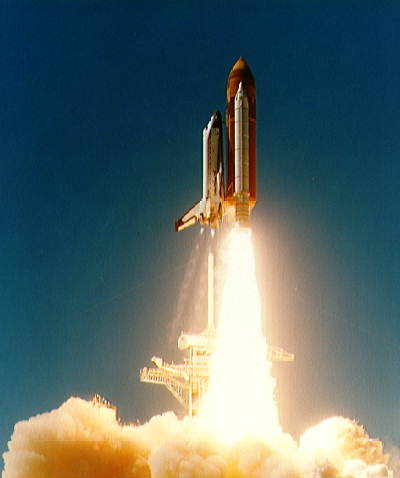 STS-52 Columbia, Orbiter Vehicle (OV) 102, clears the tower after liftoff from Kennedy Space Center (KSC) Launch Complex (LC) Pad 39B at 1:09:39 pm (Eastern Daylight Time (EDT)). The diamond shock effect from OV-102's three space shuttle main engines (SSMEs) is visible. Exhaust billows from the solid rocket boosters (SRBs) and covers the LC Pad in a cloud.